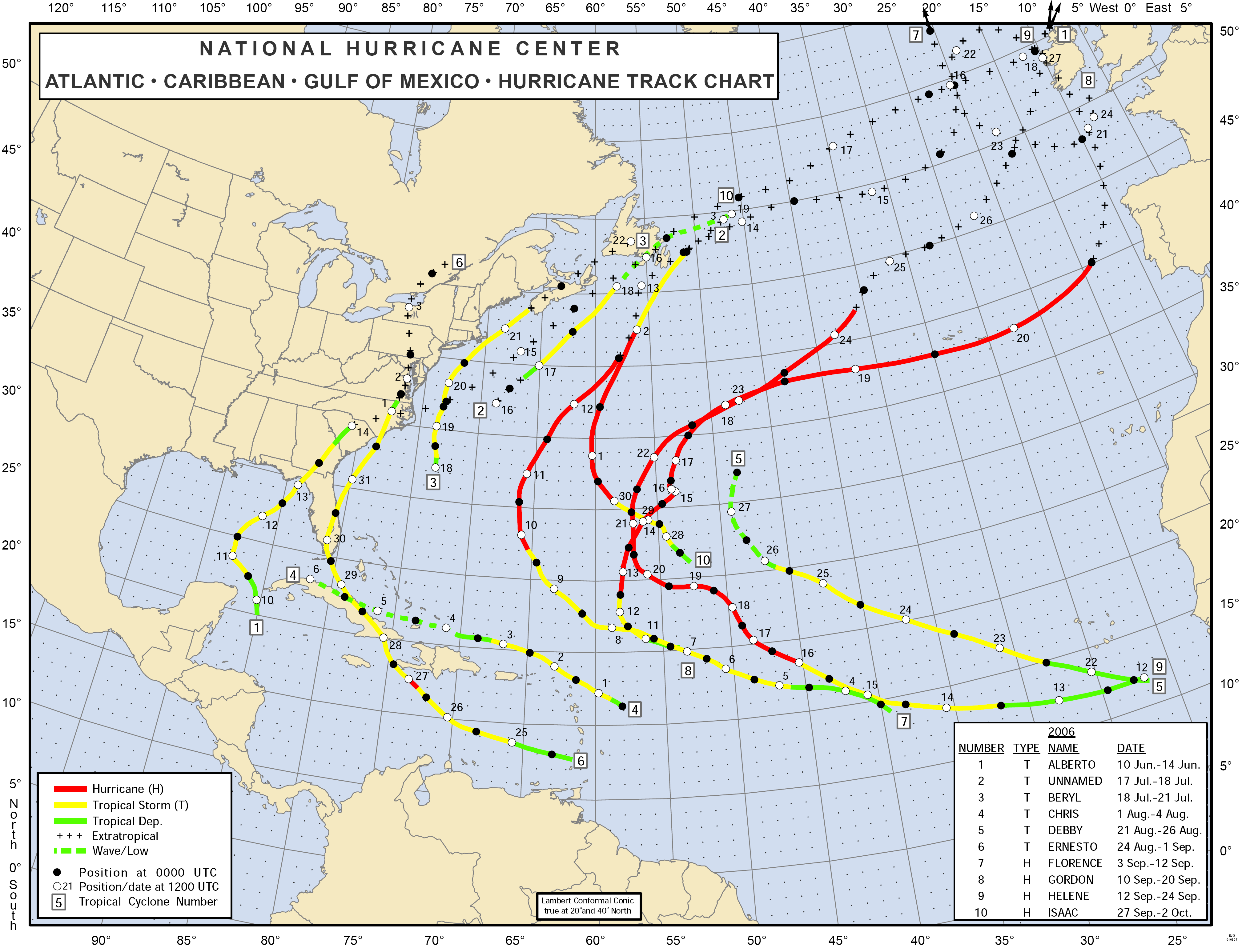 Season summary provided by NOAA of the 2006 Atlantic hurricane season.